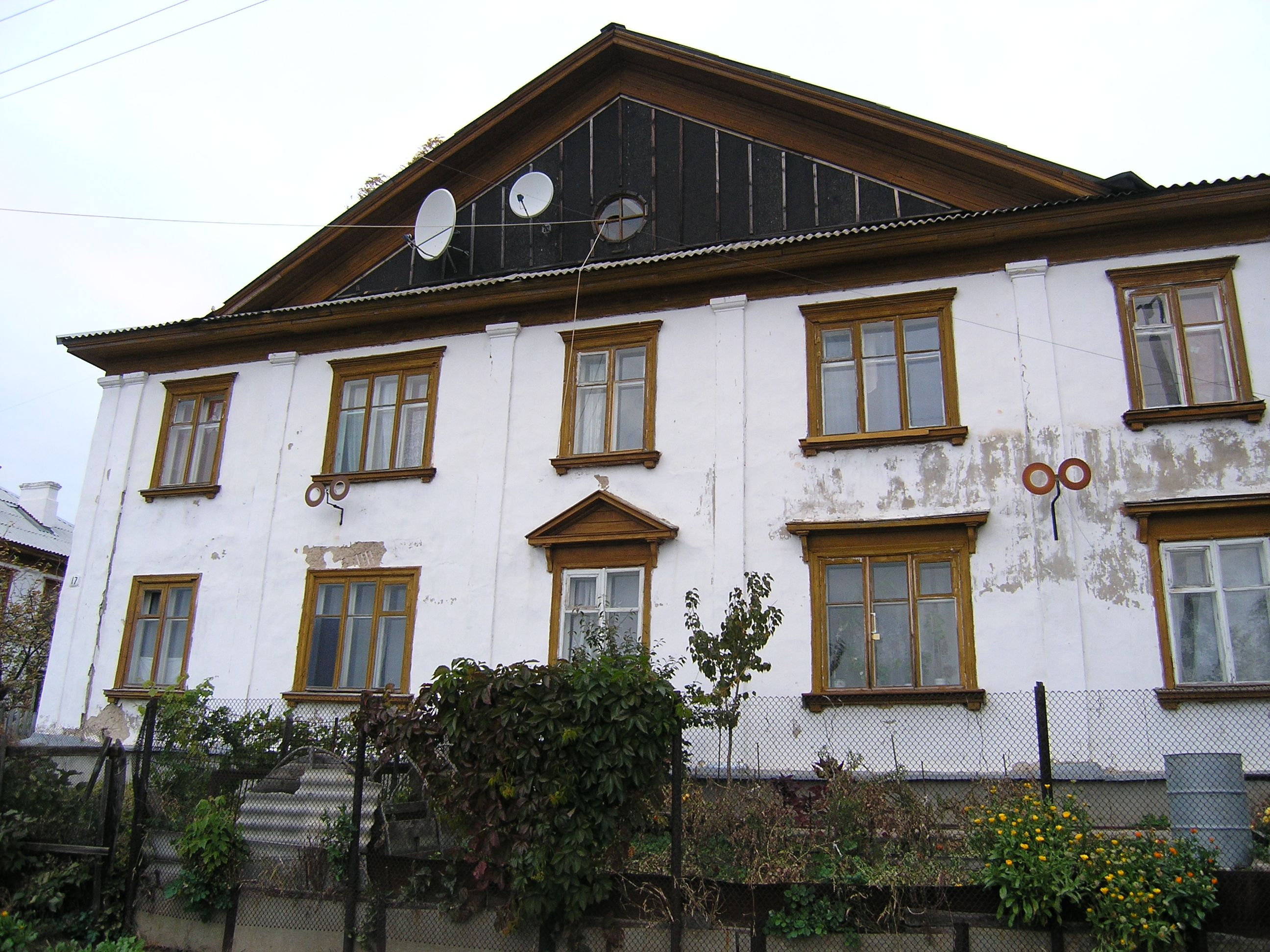 Naberezhnaya street, Togliatti, Russia